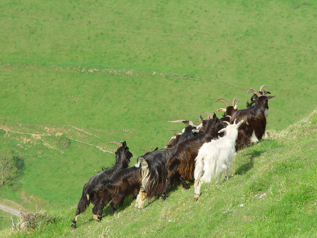 Pyrenean goats (Pyrenean goat breed) on Pic de La Clique (1200 m), Germs-sur-Oussouet, High Castelloubon, Canton de Lourdes-Est (Hautes-Pyrénées, France).